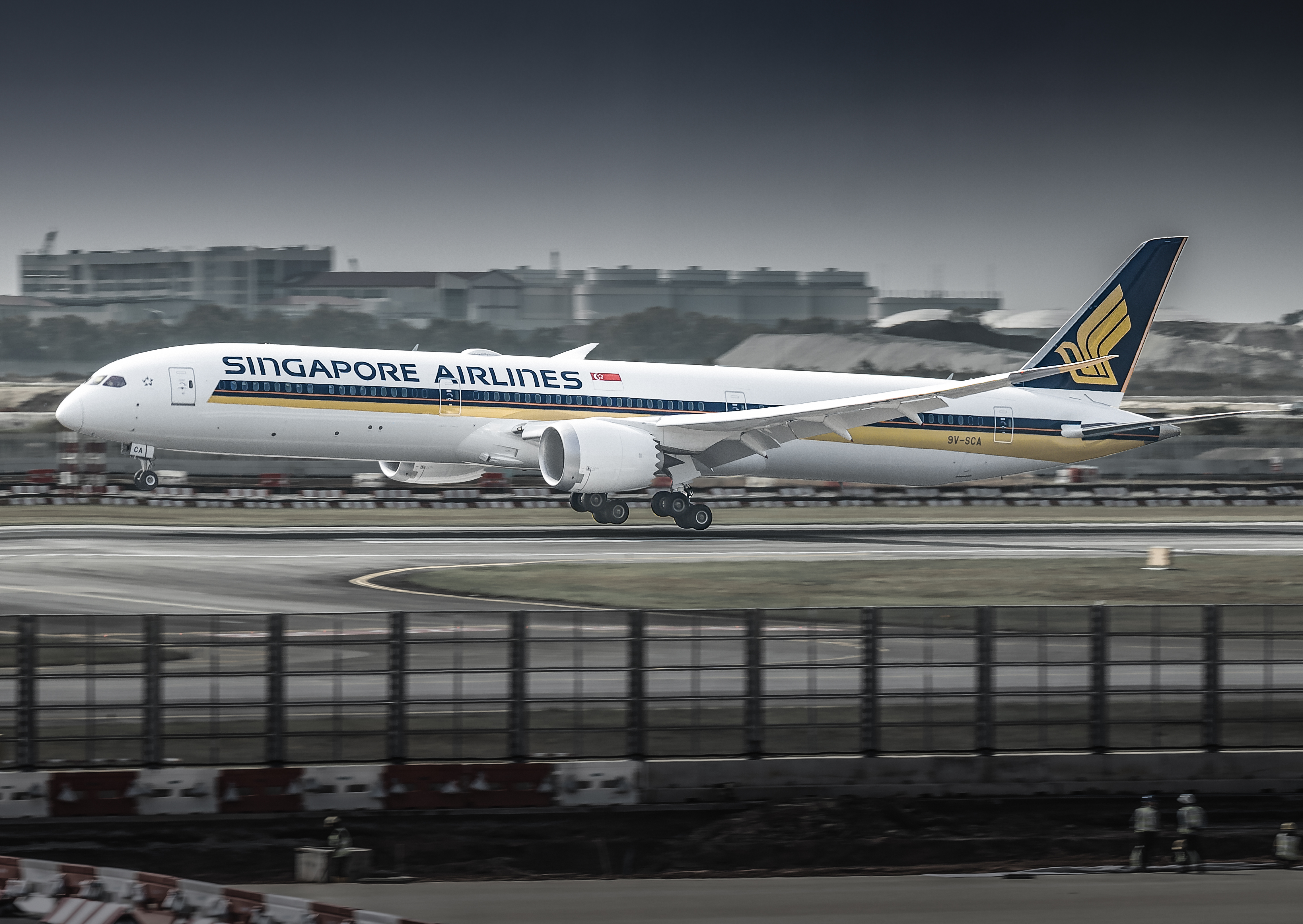 A new Boeing 787-10for Singapore Airlines ariving at Singapore for the first time ever